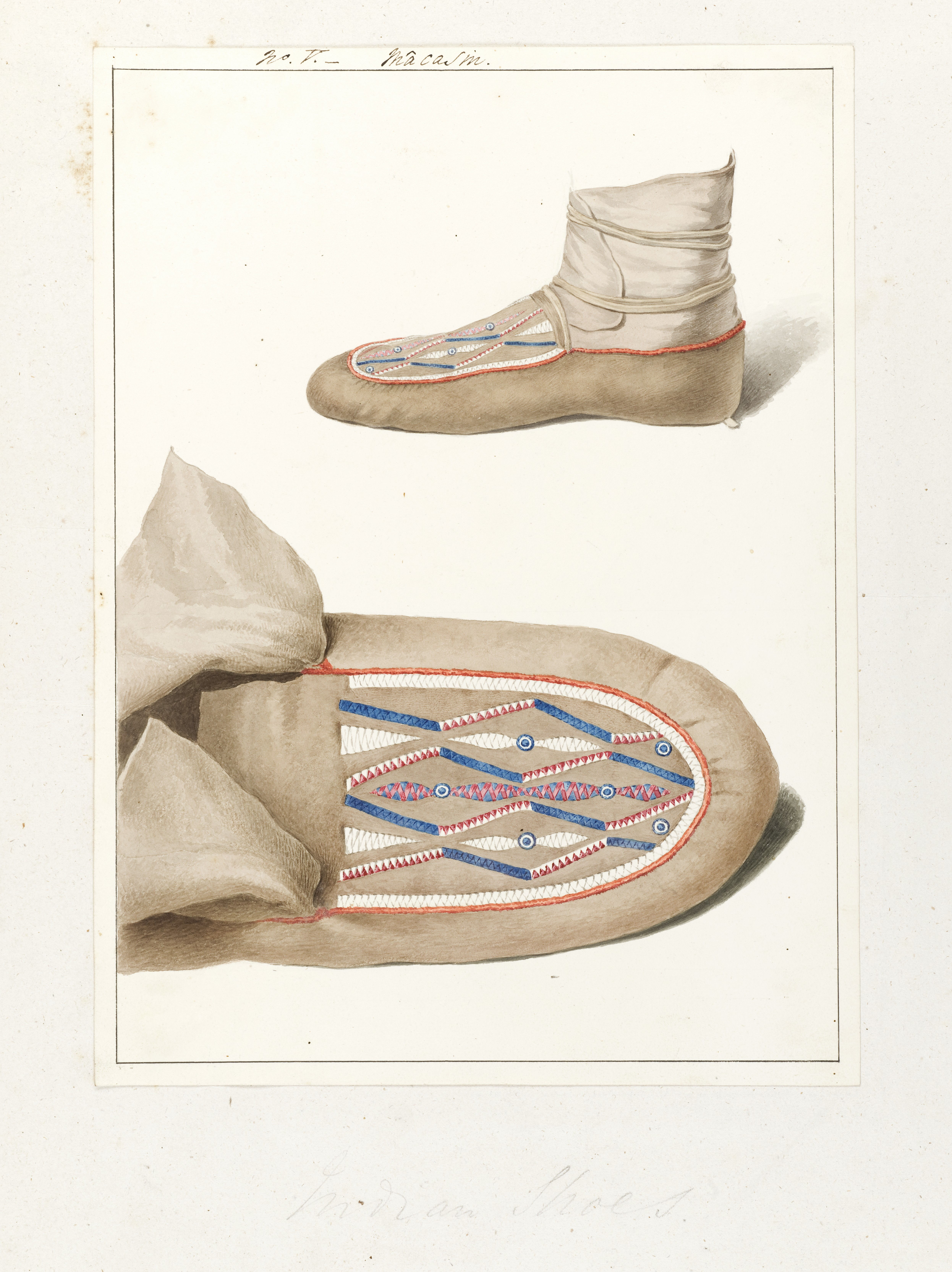 North American artefacts and places. Album of drawings and watercolours attributed to Thomas Bateman Picture shows Moccasins (shoes) Iconographic Collections Keywords: Thomas Bateman; American Indian; Indians, North American